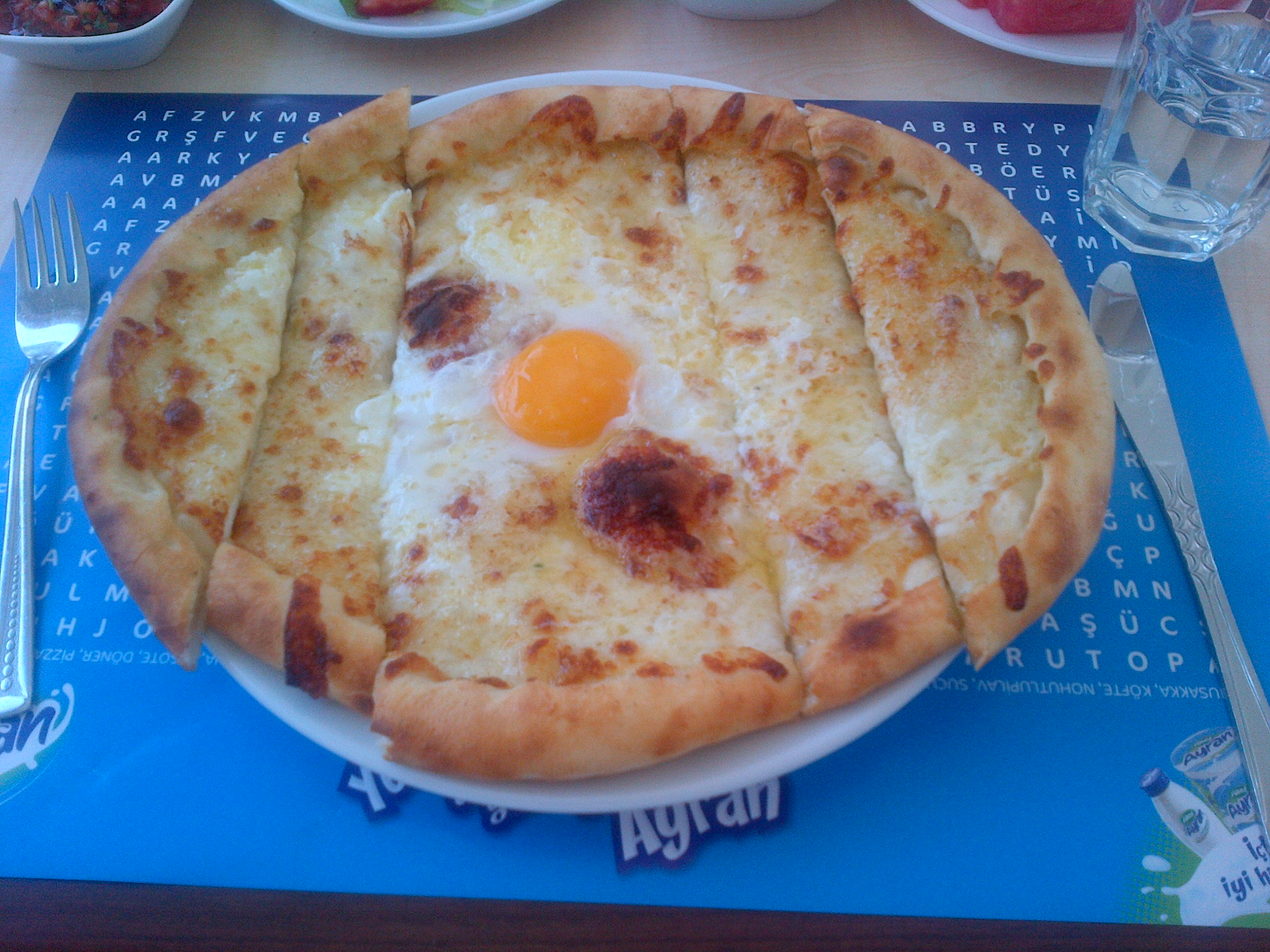 Turkish "pide" from the Black Sea Region with butter and eggs known locally as "Yağlı".